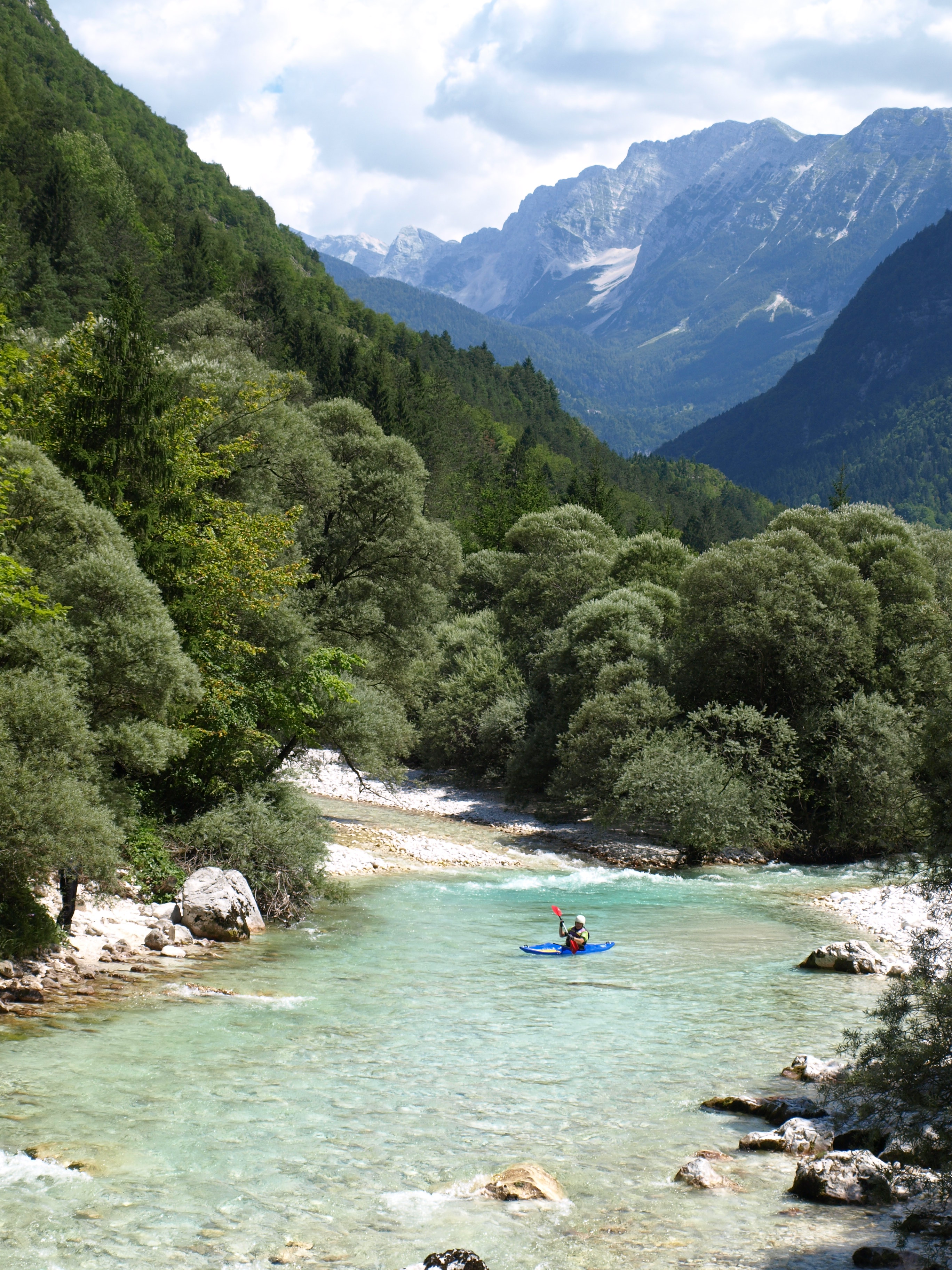 River Soca